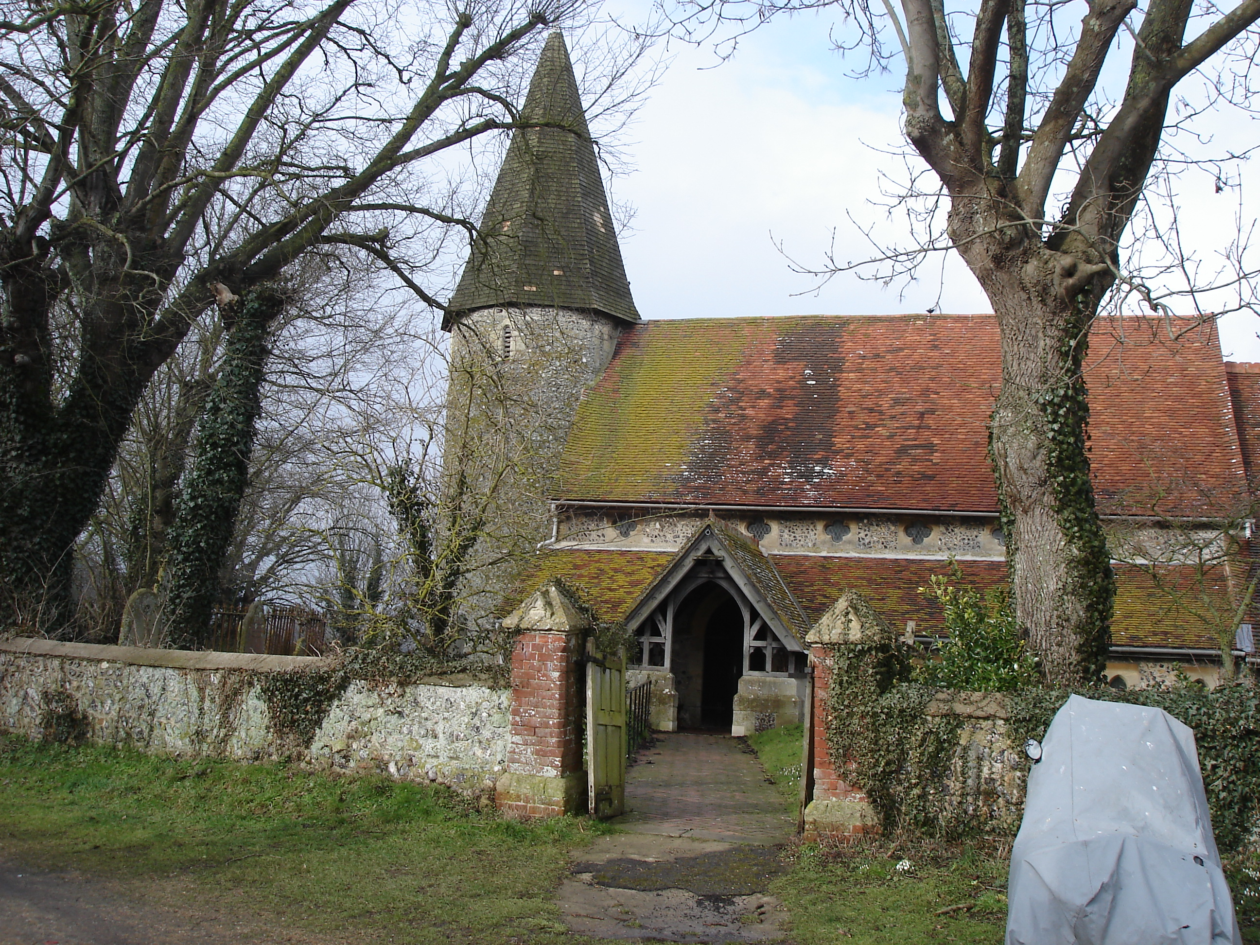 Nave, west tower and spire of St John's parish church, Piddinghoe, Kent, seen from the south